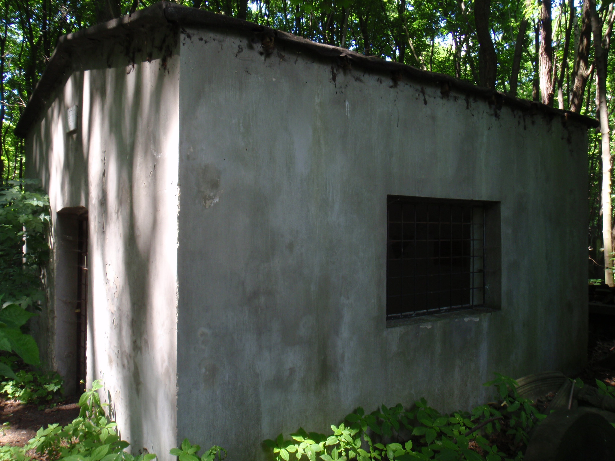 Ohel of tzadiks - Jakub Landau from Jeżów and Menachem Mendel Chaim Landau from Zawiercie